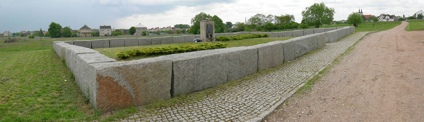 The memorial of the pogrom of Jedwabne on the former site of the barn where the jews were burnt.